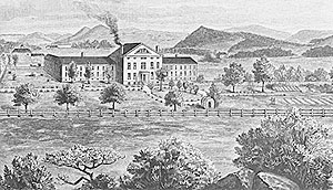 The Brattleboro Retreat in 1844, ten years after its founding through Anna Marsh's will and estate